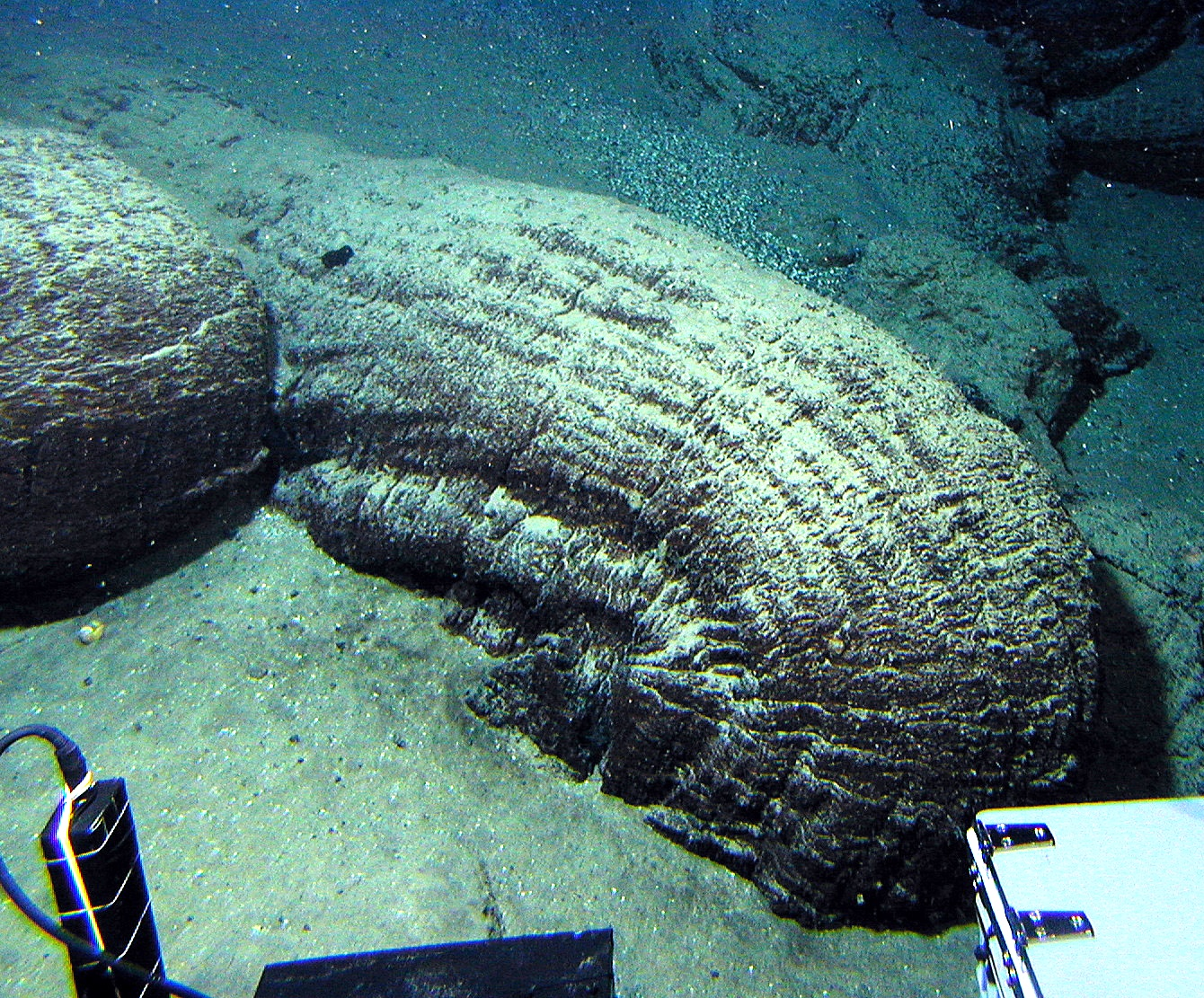 Extruded pillow lavas in Pacific Ocean North of Tau'u (American Samoa), the nearest island to Vailulu'u Seamount. Vailulu'u Expedition 2005.